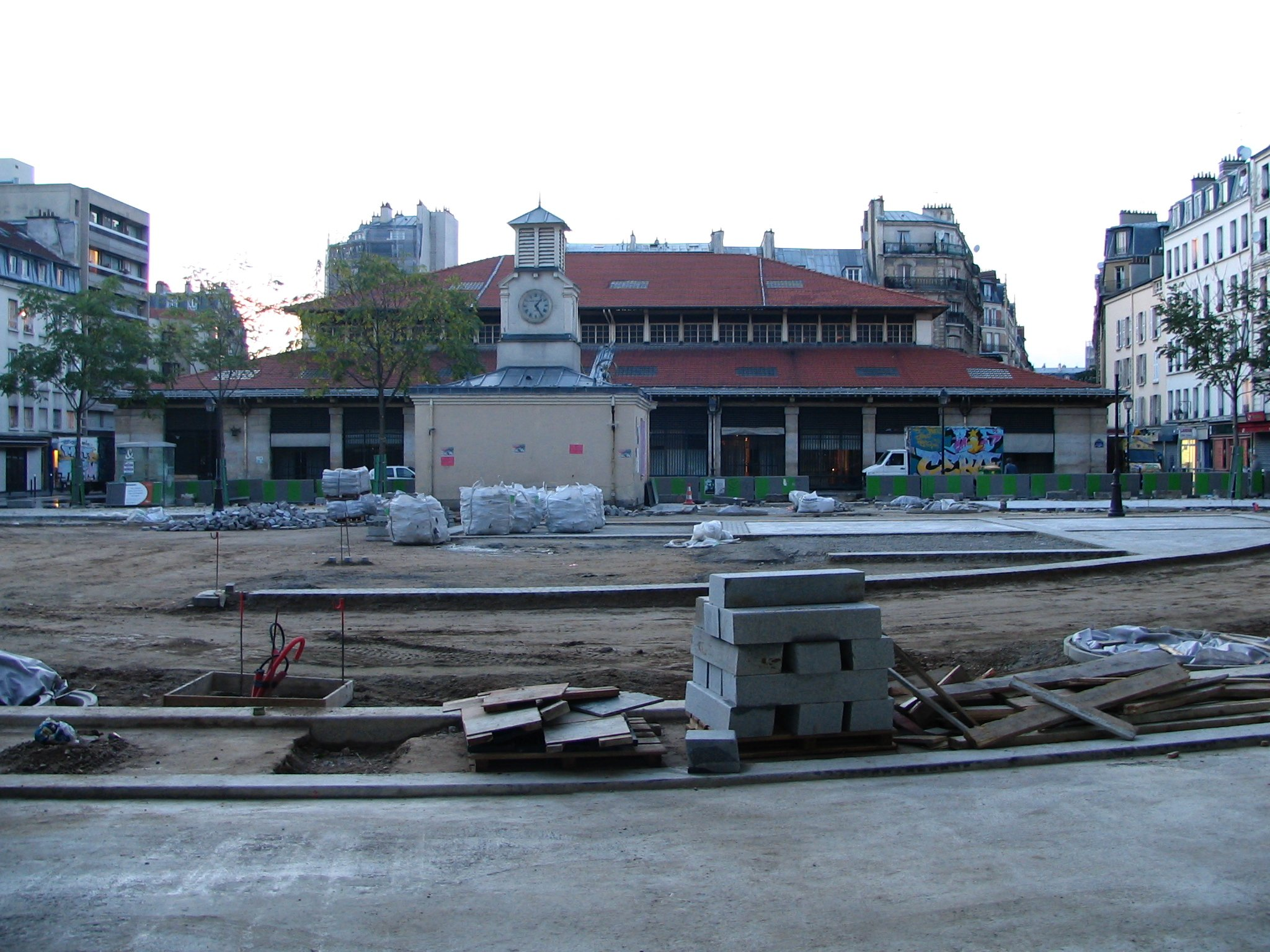 Place d'Aligre, Paris XIIe, petite mairie et Marché Beauveau, during place rearangement in 2006. .